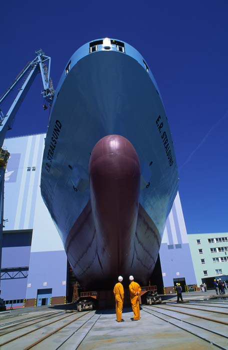 Roll-Out of a ship at the Volkswerft in Stralsund, Germany.